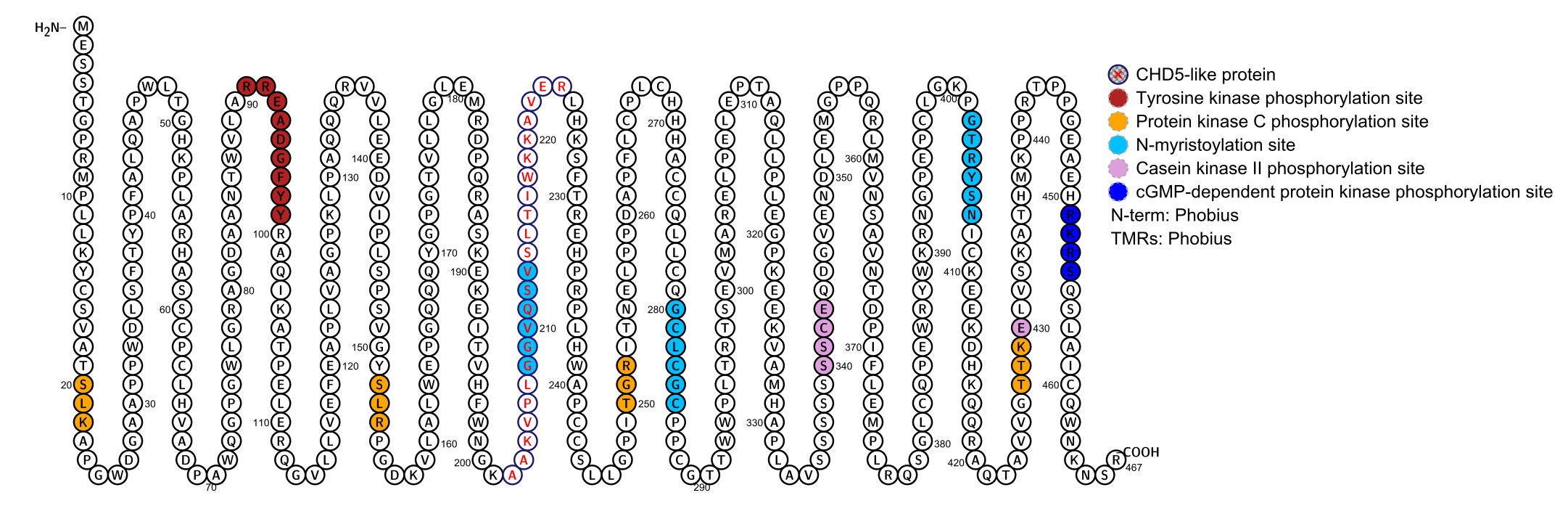 PROTTER-motifs of C11orf16